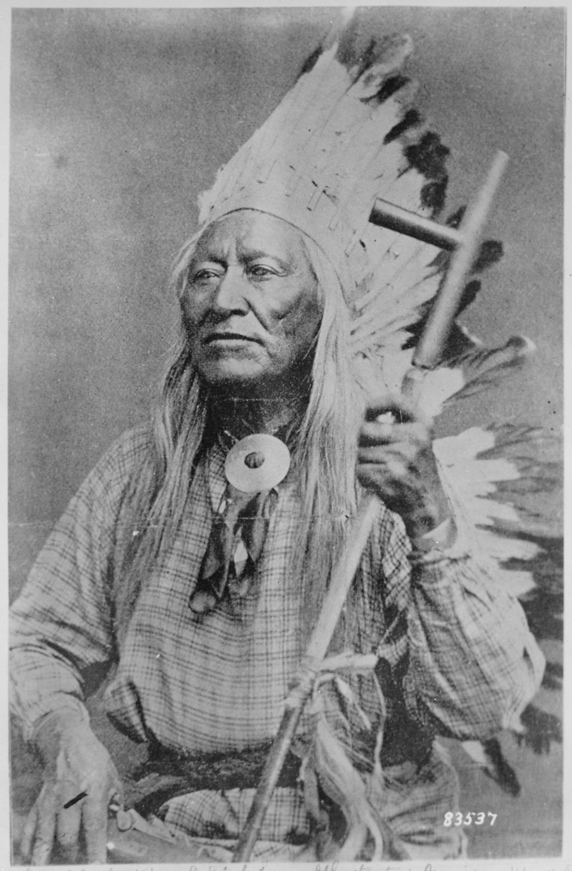 General notes: Halftone of photograph